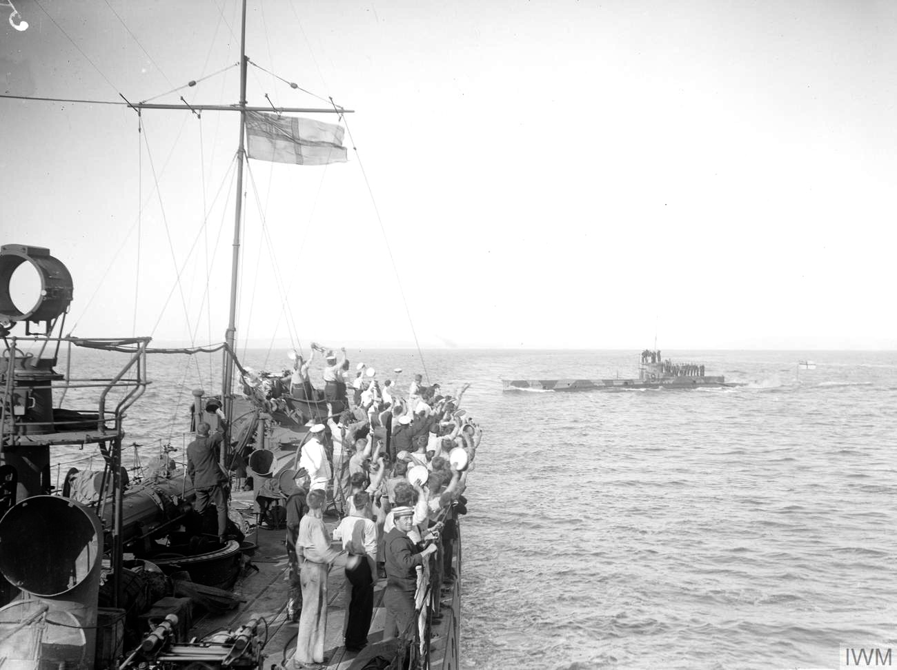 The crew of the HMS Grampus cheering the British submarine E11 after a successful raid on Turkish defences at Gallipoli.